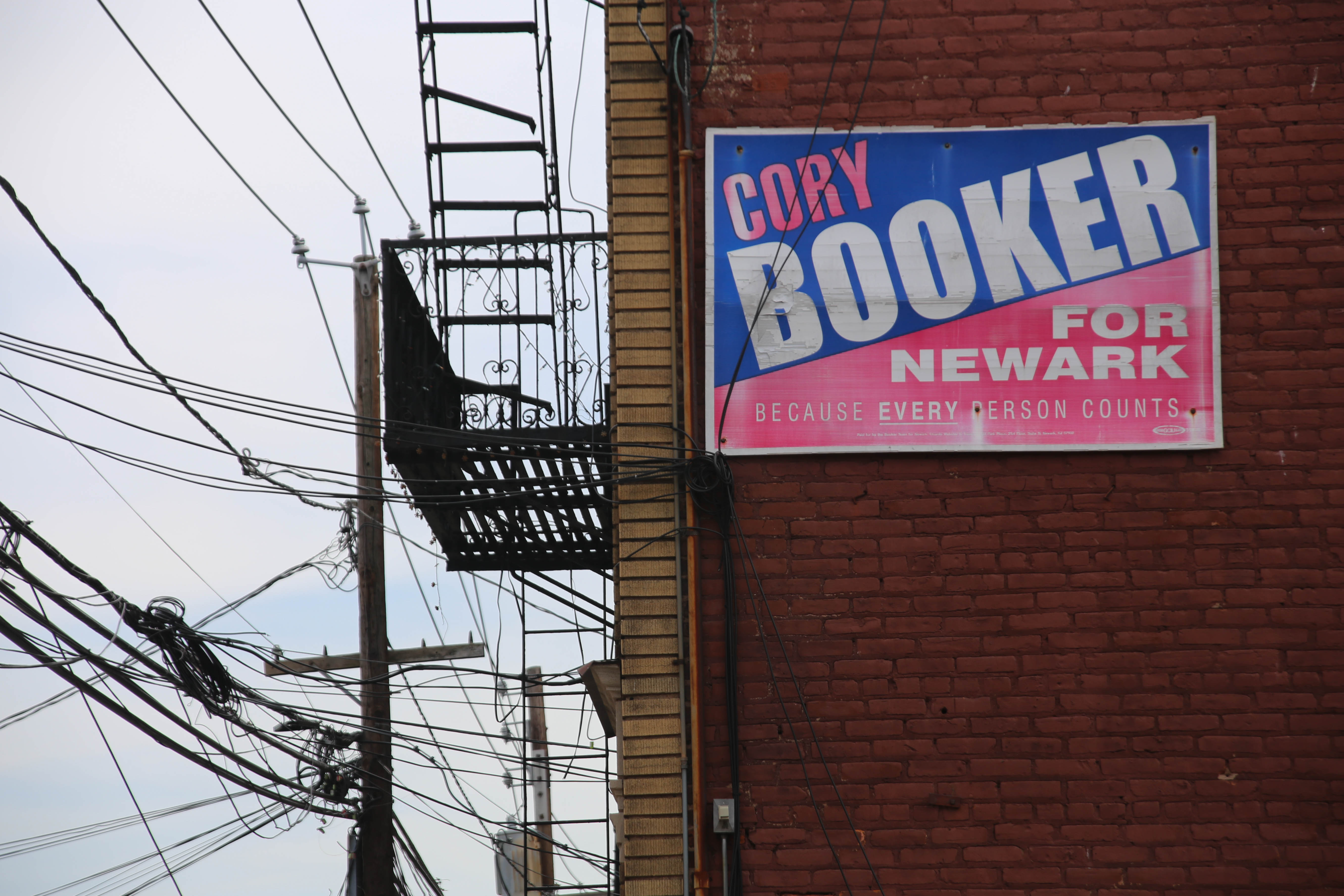 Because Every Person Counts